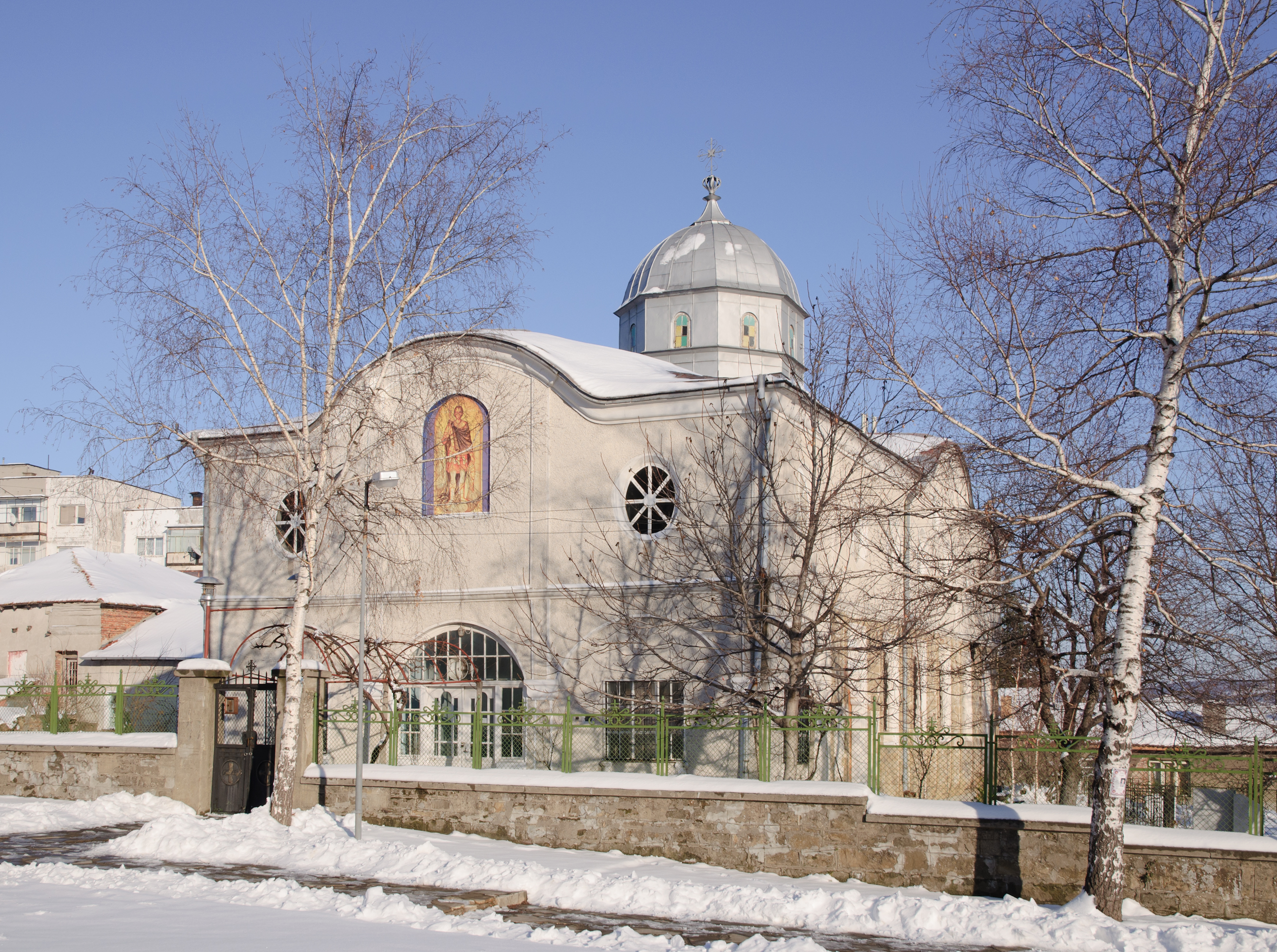 St. Demetrius church in the town of Omurtag, Bulgaria.